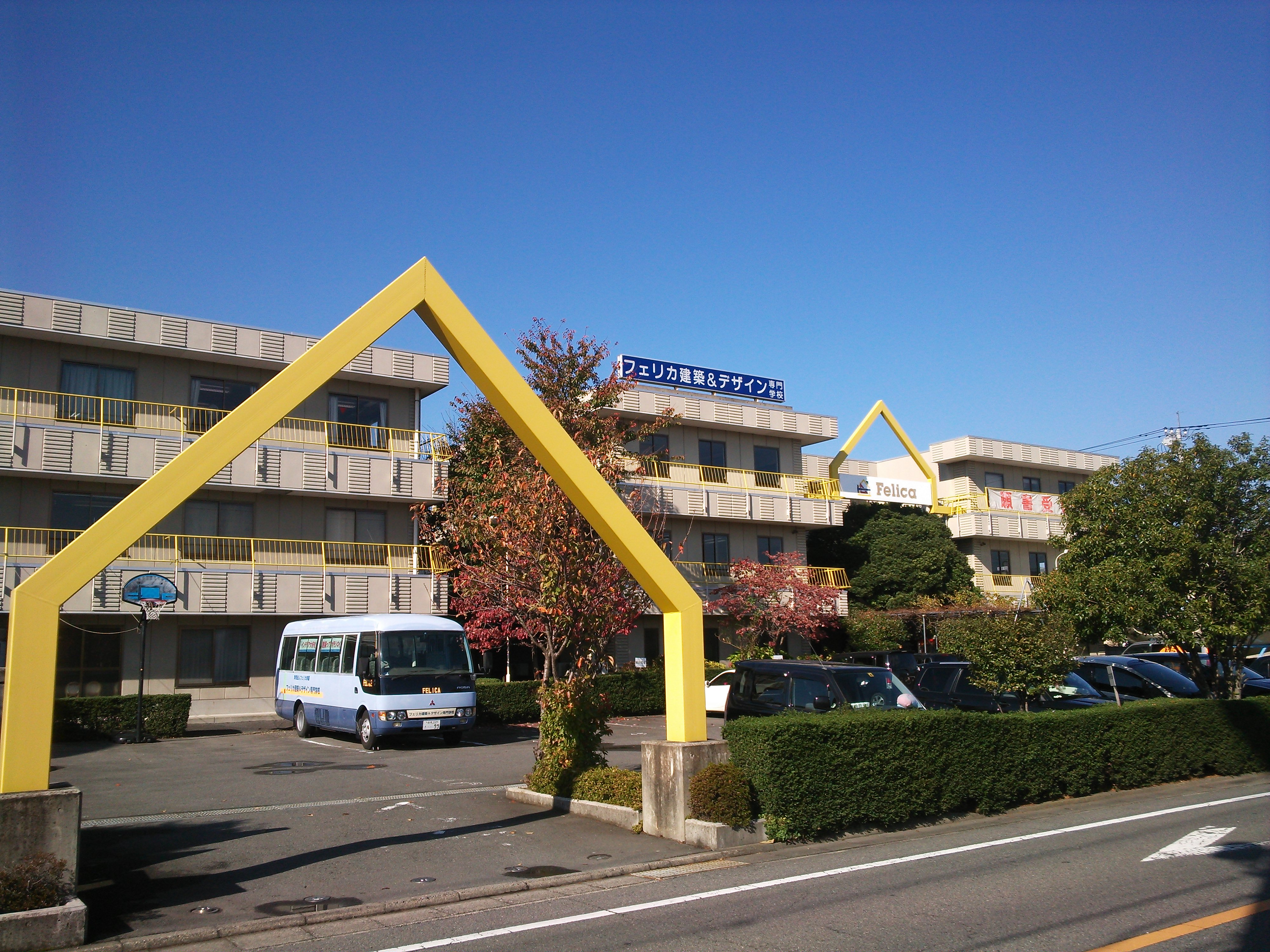 Felica architect and design college in Maebashi, Gunma Prefecture, Japan.